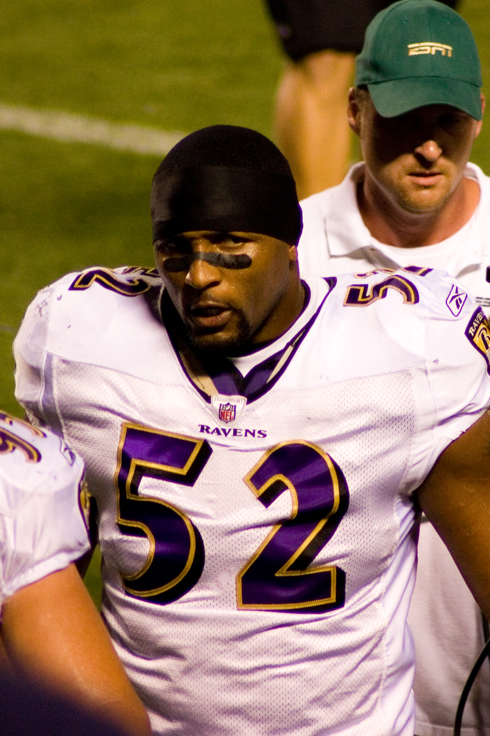 Ray Lewis of the Baltimore Ravens prior to a game